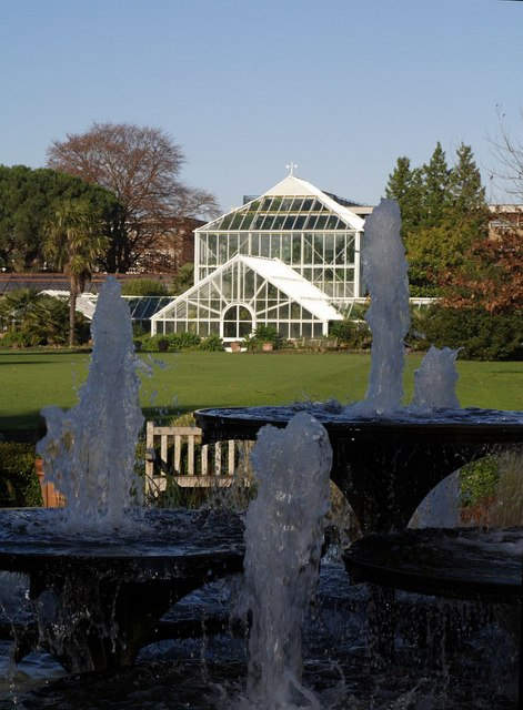 Palm House, Cambridge University Botanic Garden Seen across the fountain. The Palm House is the central of three tropical houses.